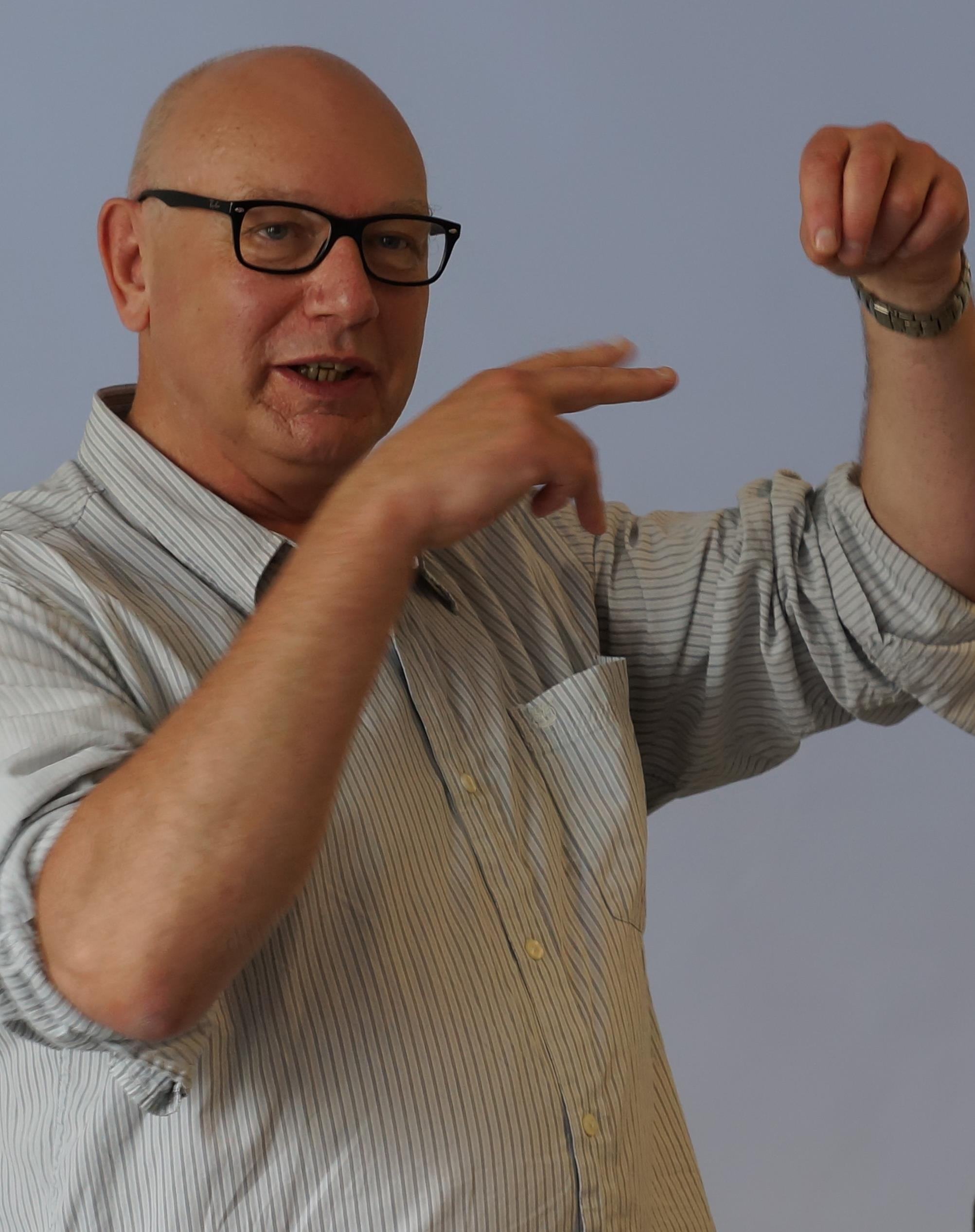 Leo de Boer giving a film=-making seminar at the Central European University in Budapest on 28 June 2013